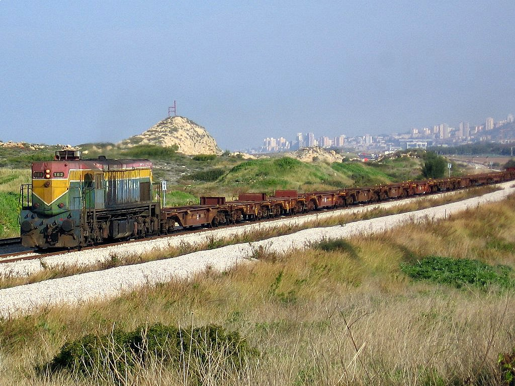 Israel Railways' locomotive no. 162 (EMD-G16) making its way south from Haifa. This is an ex-Egyptian Railways loco captured during the Six Days War in the Sinai Desert.